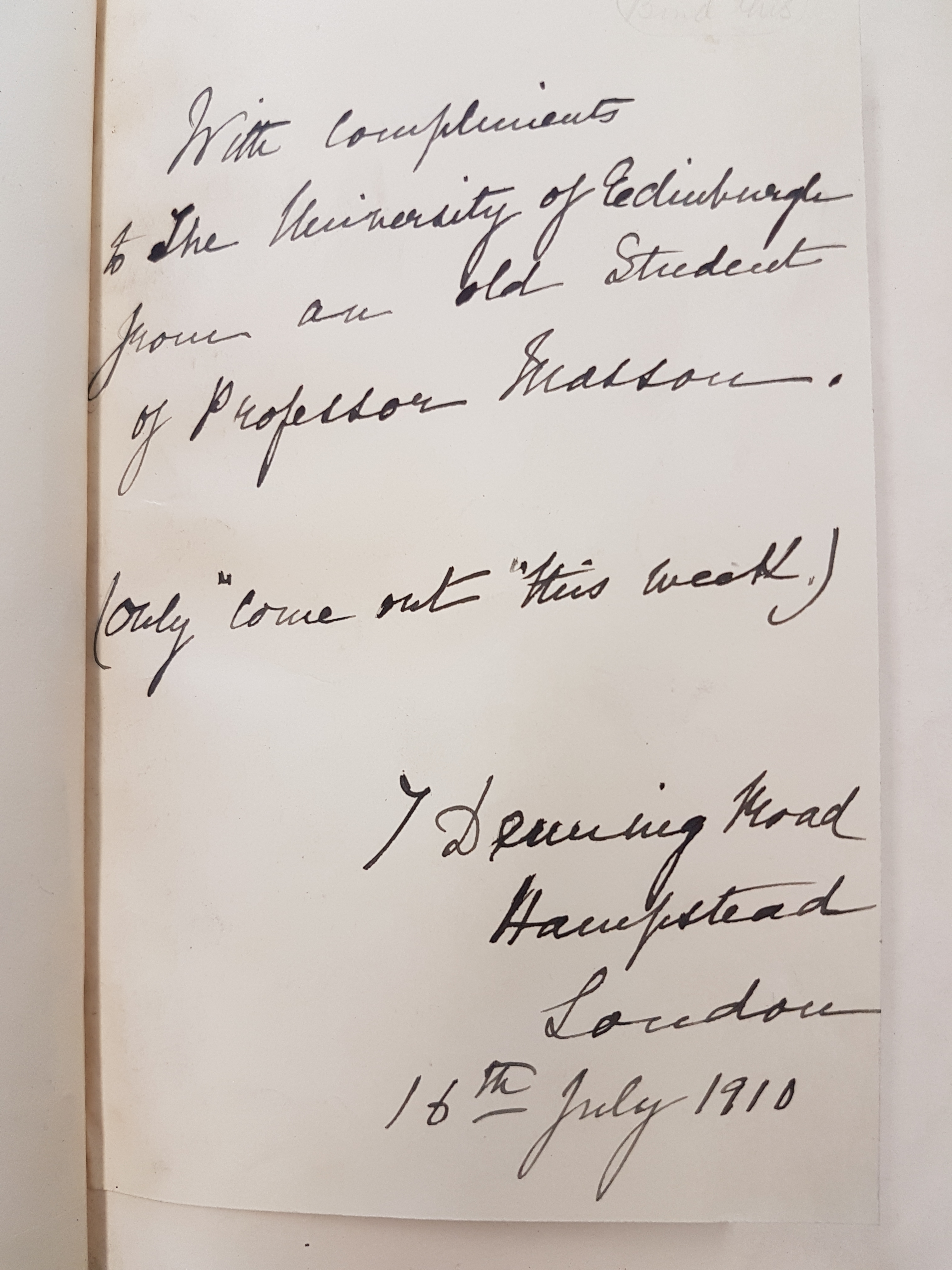 Image of the hand-written dedication of CC Stopes' book, William Hunnis and the Revels of the Chapel Royal, published 1910, held in the collection of the University of Edinburgh Library. Stopes, C. (1910). William Hunnis and the revels of the Chapel Royal : A study of his period and the influences which affected Shakespeare. (Materialien zur Kunde des älteren Englischen Dramas ; Bd.29). Louvain: A. Uystpruyst.